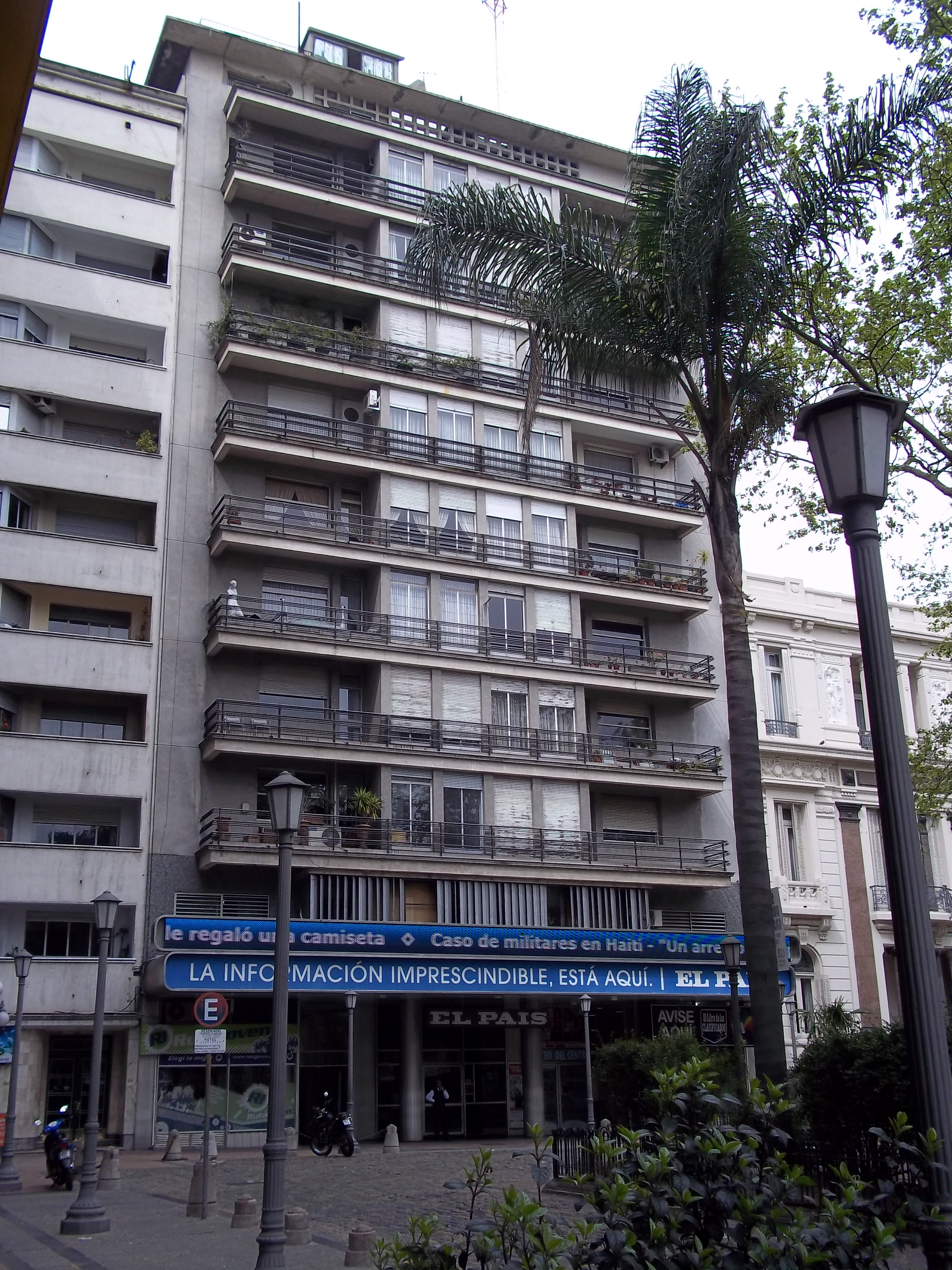 Headquarters building of the Diario El País, in Plaza Cagancha; Montevideo, Uruguay.